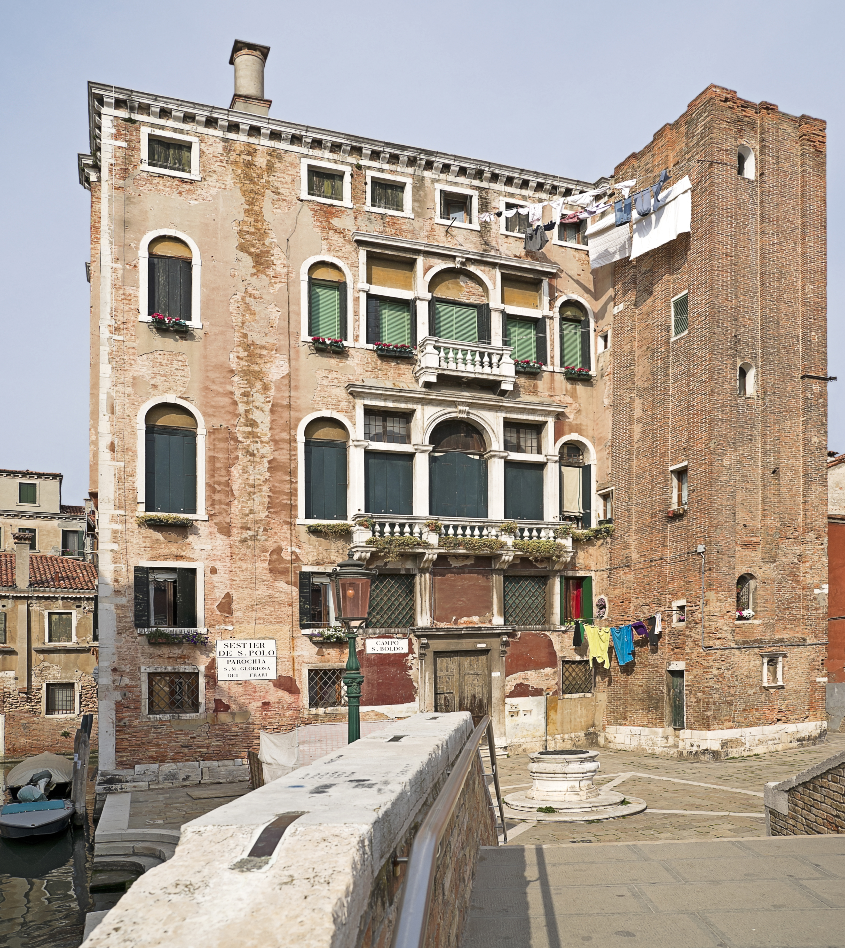 Palazzo Businello (Grioni) and the bell tower for Church di San Boldo in Venice.